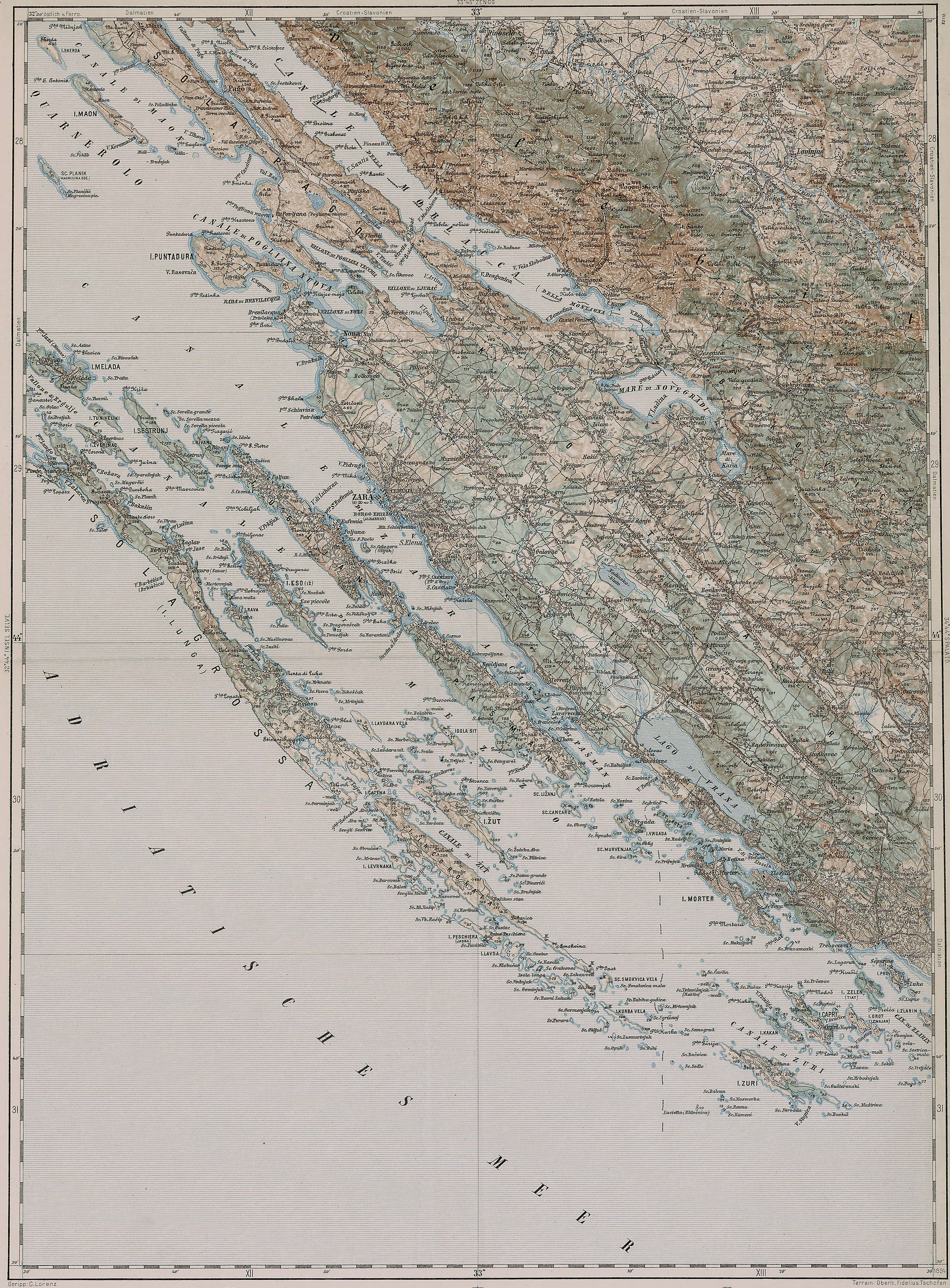 3rd Military Mapping Survey of Austria-Hungary - Zara